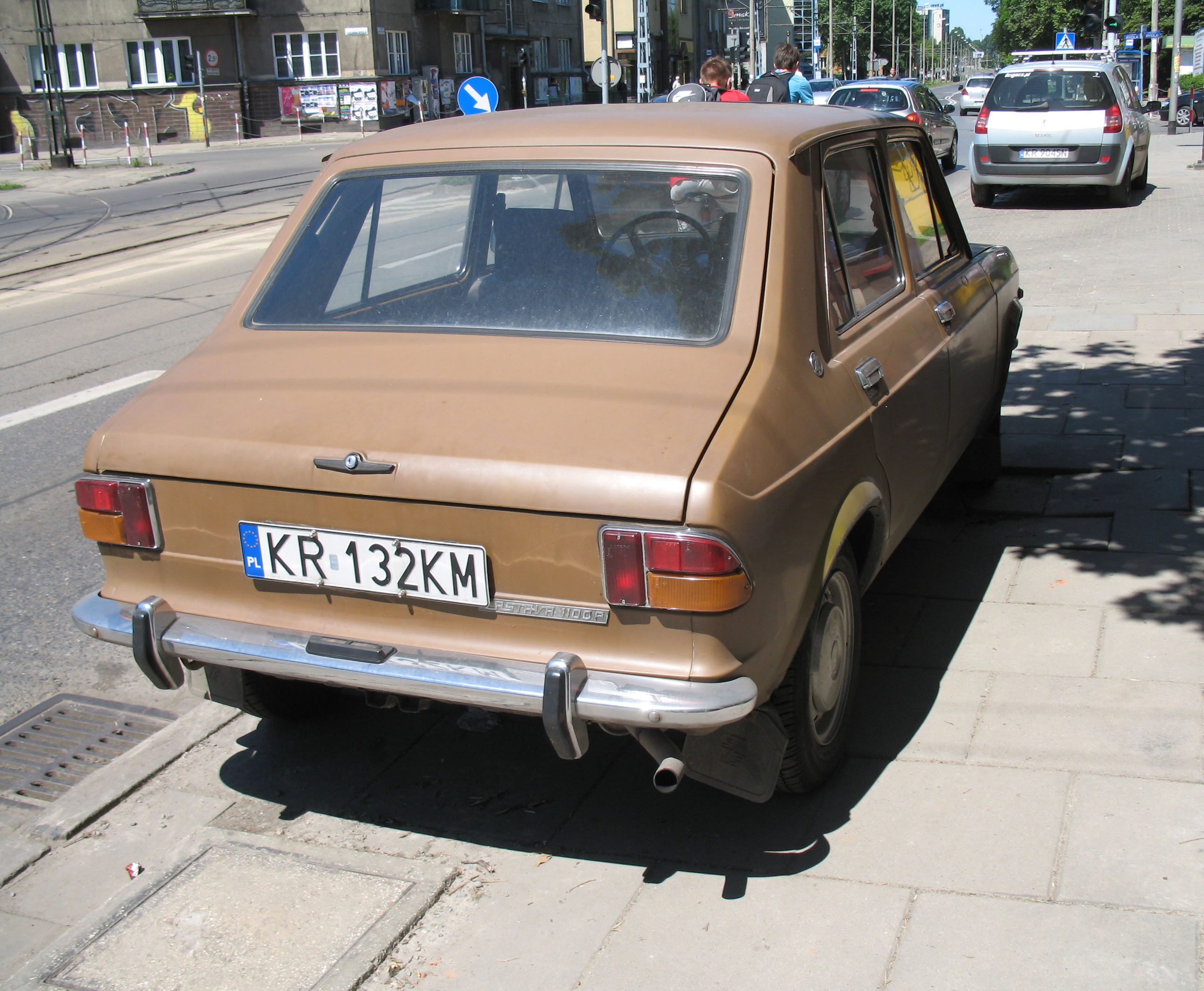 Zastava 1100p car in Kraków, Poland. Assembled FSO in Warsaw, Poland.